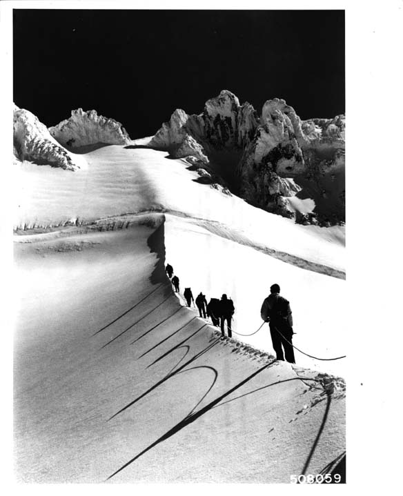 A group of climbers from The Mazamas mountaineering club ascends Coalman Glacier along Mount Hood's Hogsback